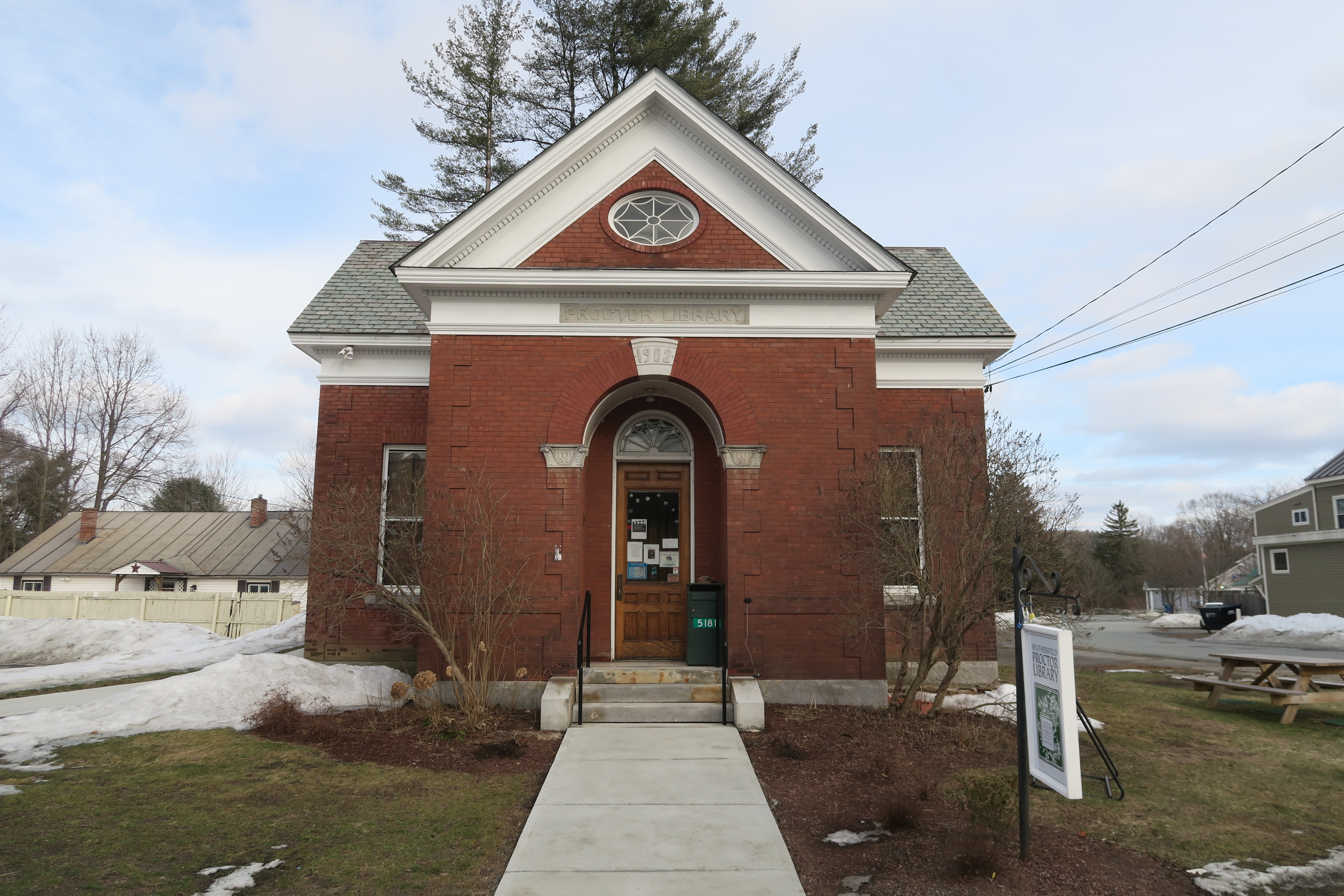 Proctor Library, Ascutney Vermont